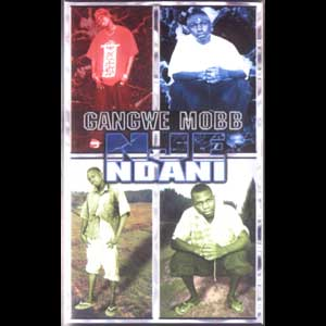 This Photo I am the one who made this image as remembrance of gangwe mobb because this time they no longer be together